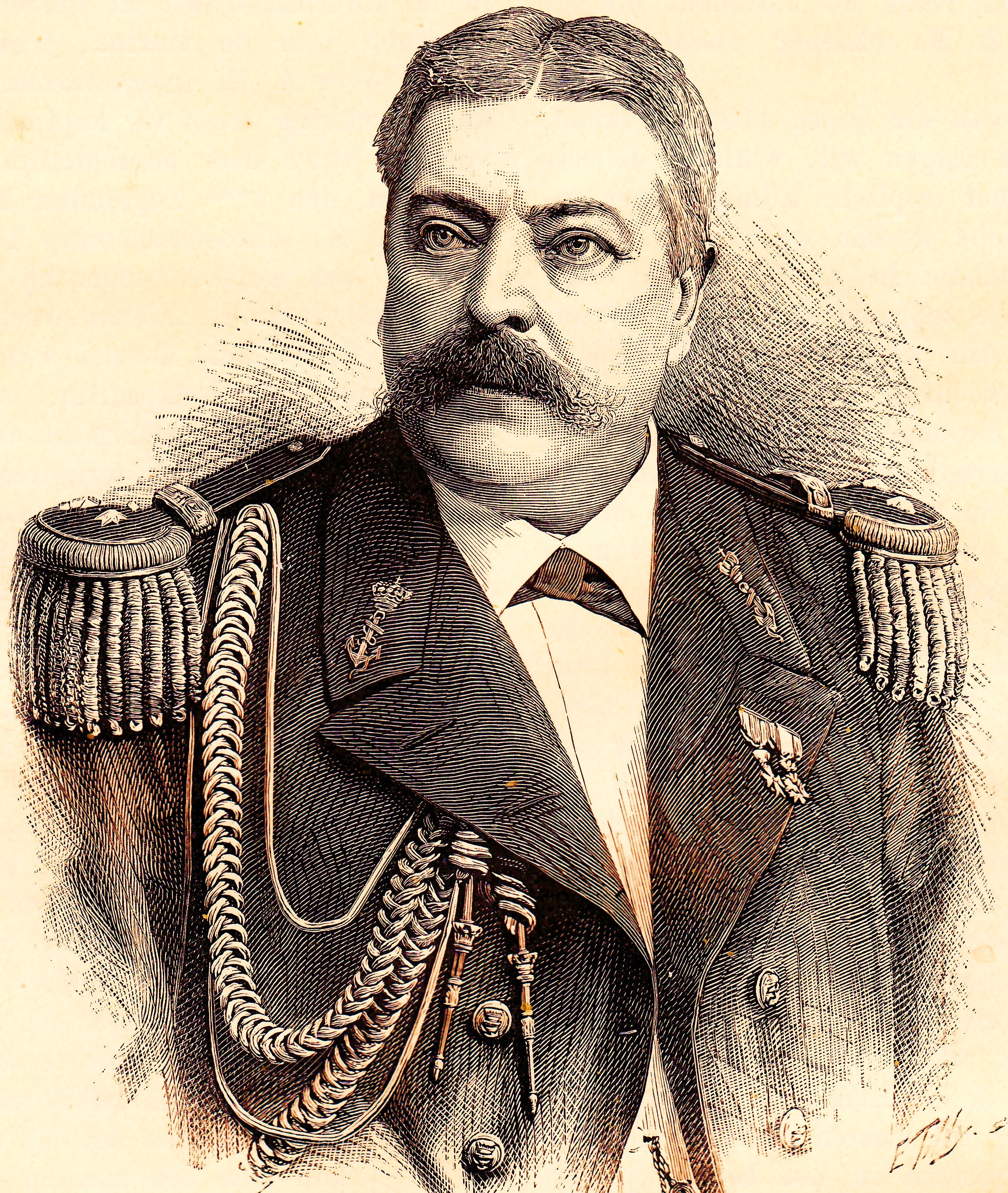 Vice-admiraal Johan Willem Binkes